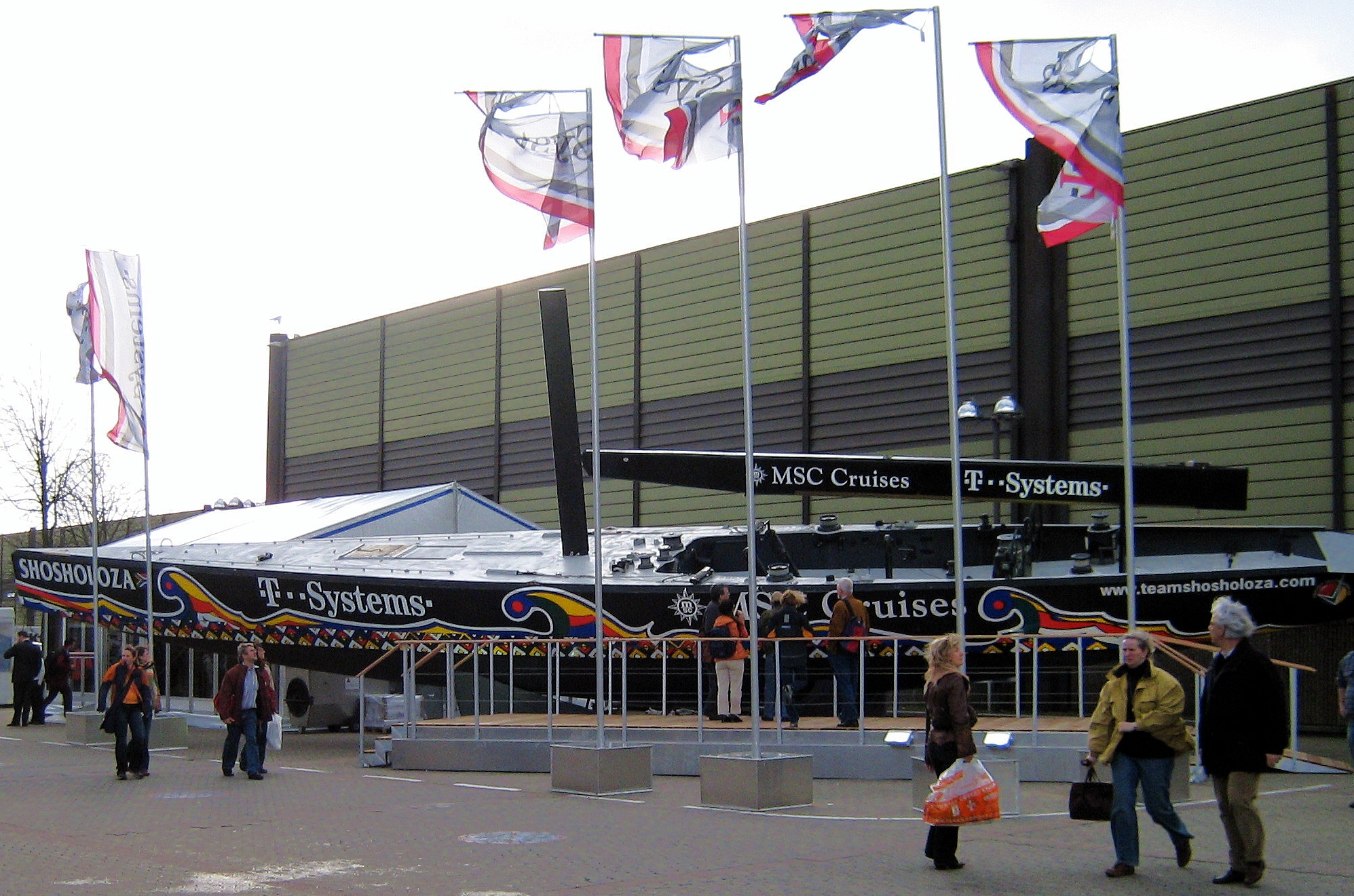 sailing race boat "Shosholoza" in front of exhibition hall boot 2007 in Duesseldorf, Germany.